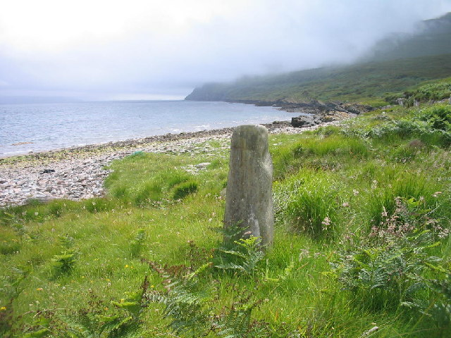 Stone at Bagh na h-Uamha inscribed with Cross. The stone was discovered on the beach head in 1977. It is believed to date from the 5th Century and is probably of Viking origin.